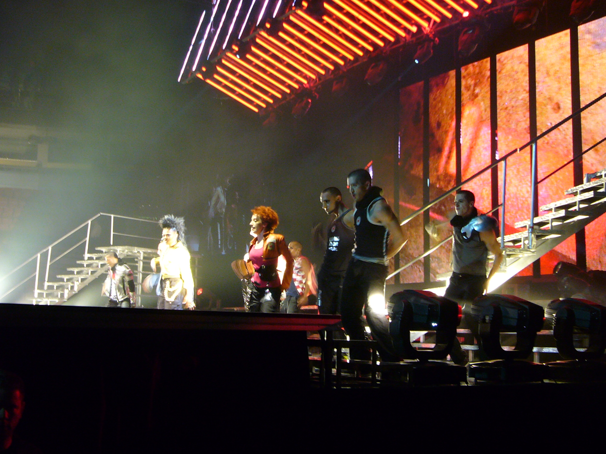 Janet Jackson, Vancouver